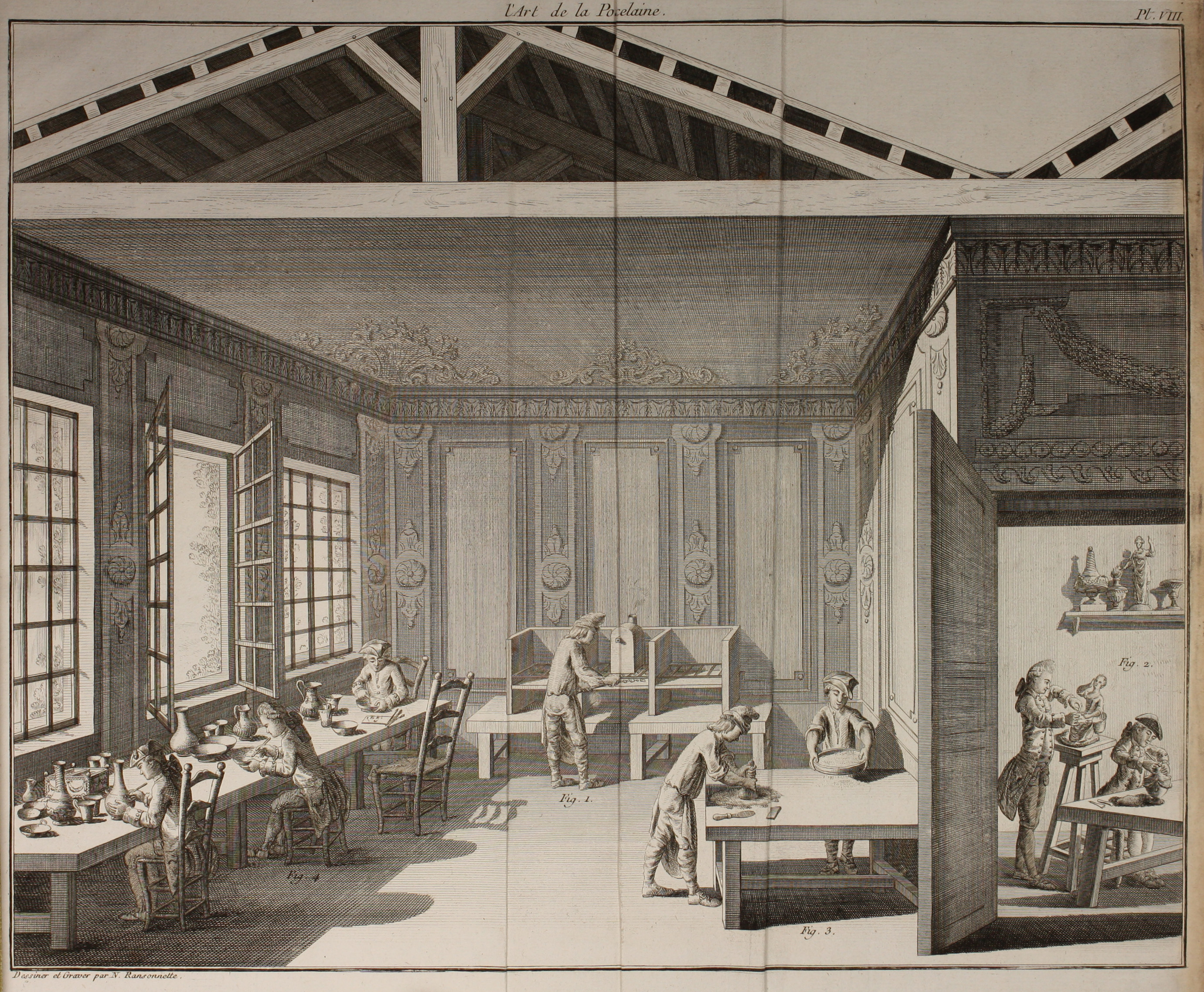 Plate VIII, Illustration from L'art de la porcelaine / par m. le comte de Milly. Paris : De l'Imprimerie de L.F. Delatour, 1771-1772. This book was published in the Descriptions des arts et métiers faites ou approuvées par messieurs de l’Académie Royale des Sciences, a 113-volume series devoted to handcraft and manufacturing processes. In it the Count de Milly published the secret of hard-paste porcelain, previously a closely guarded secret. This illustration shows workers in a French porcelain factory. Bottom left: "Dessiner et graver par N. Ransonnette".